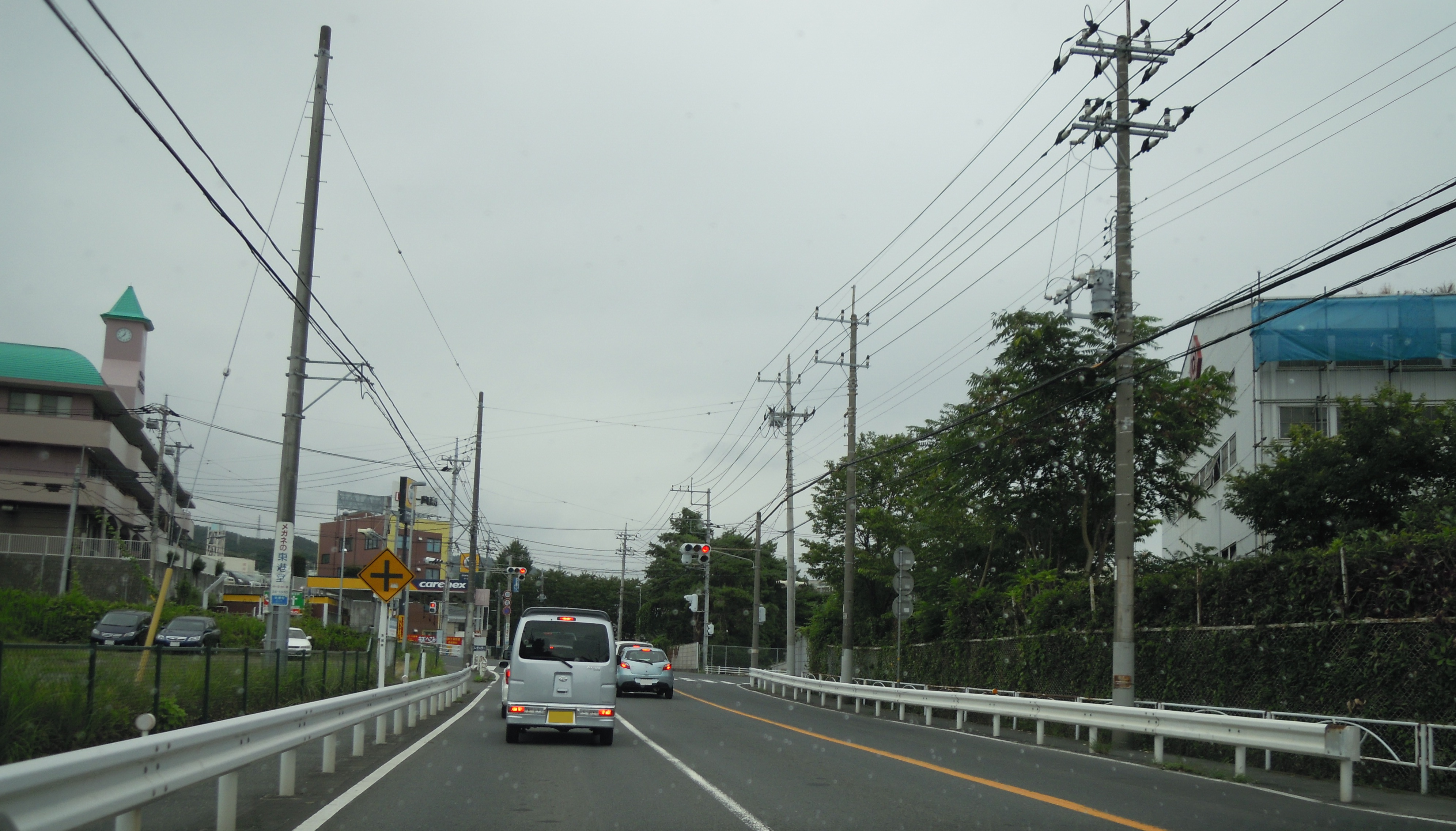 Ibarakiroute266-Ouseminatoline(Hitachi, Ibaraki, Japan)